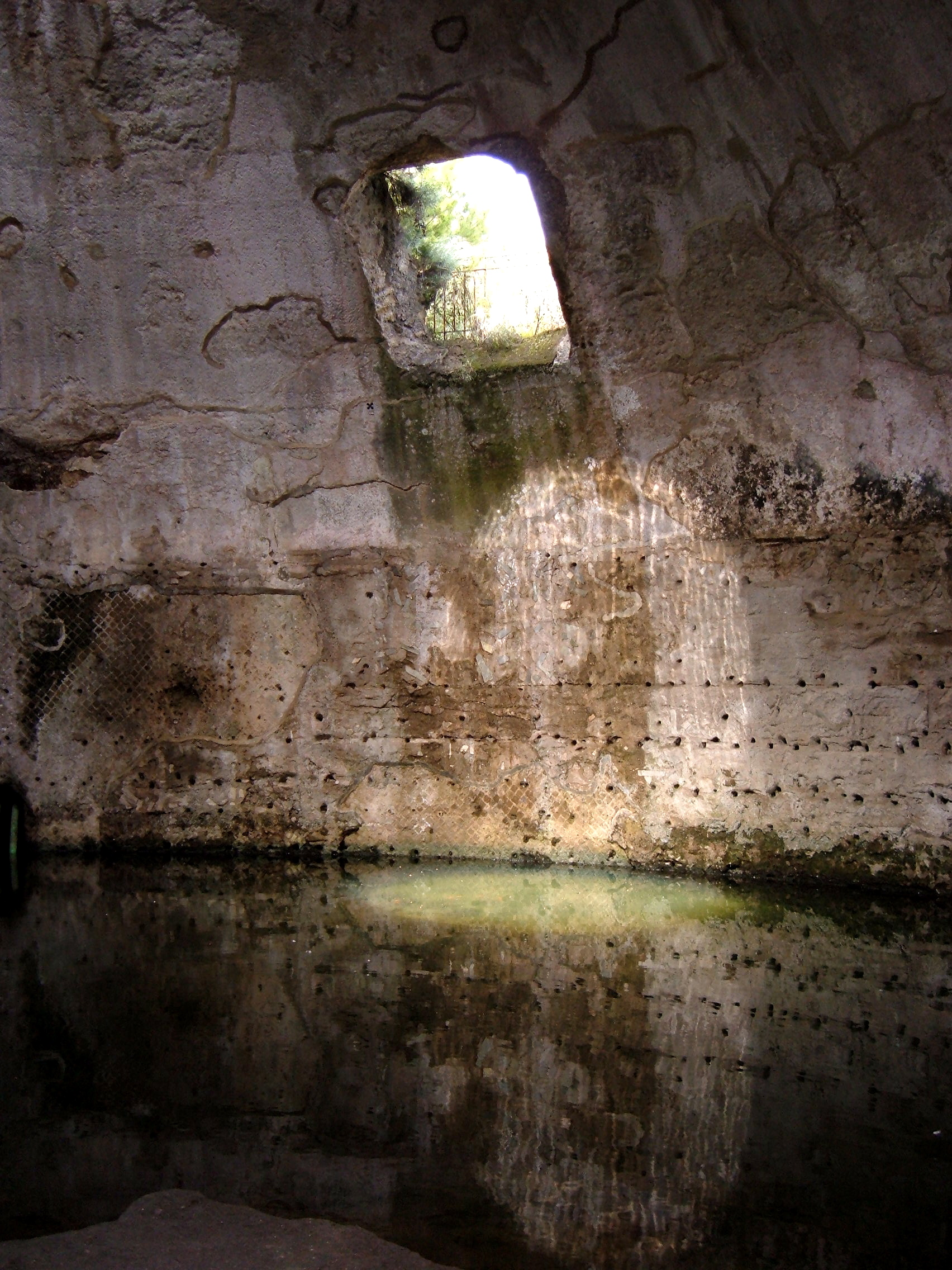 The (socalled) Temple of Echo, so named for obvious reasons in the antique Baiae